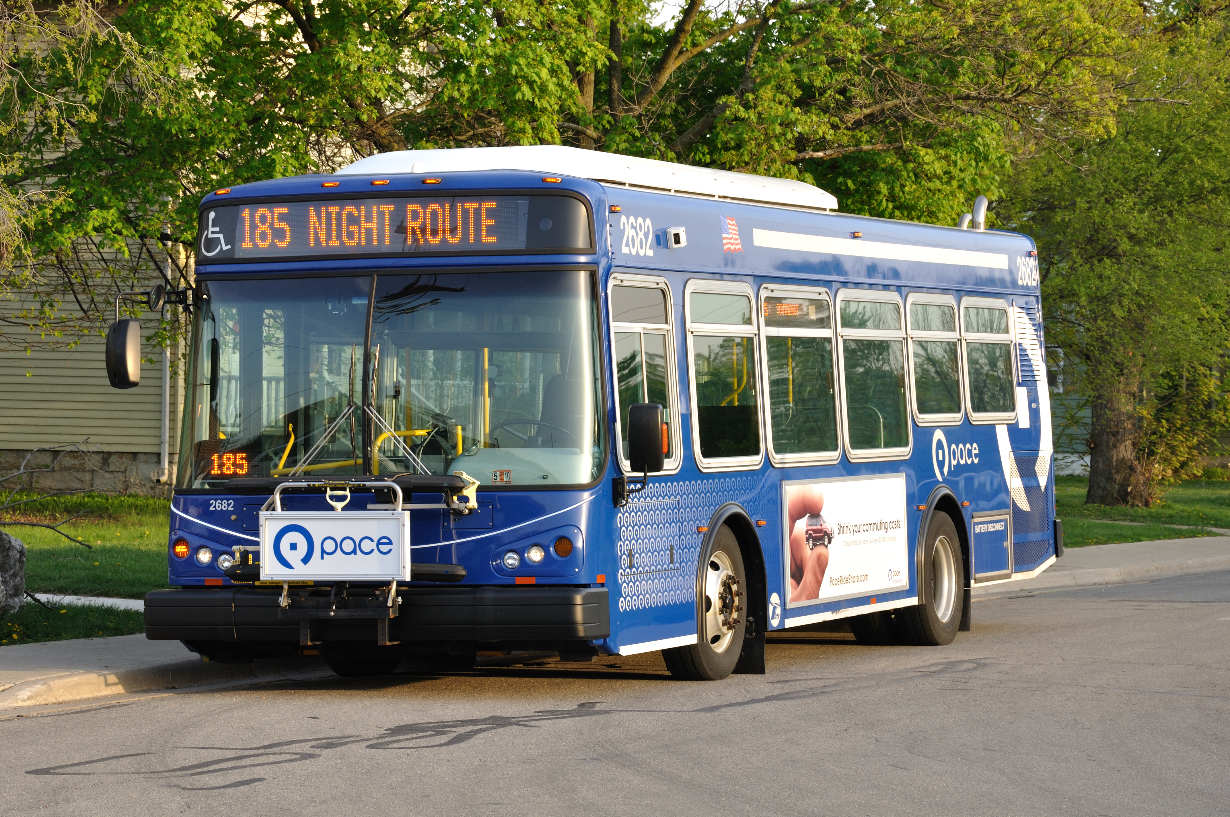 Waiting for rush hour commuters at Naperville station.